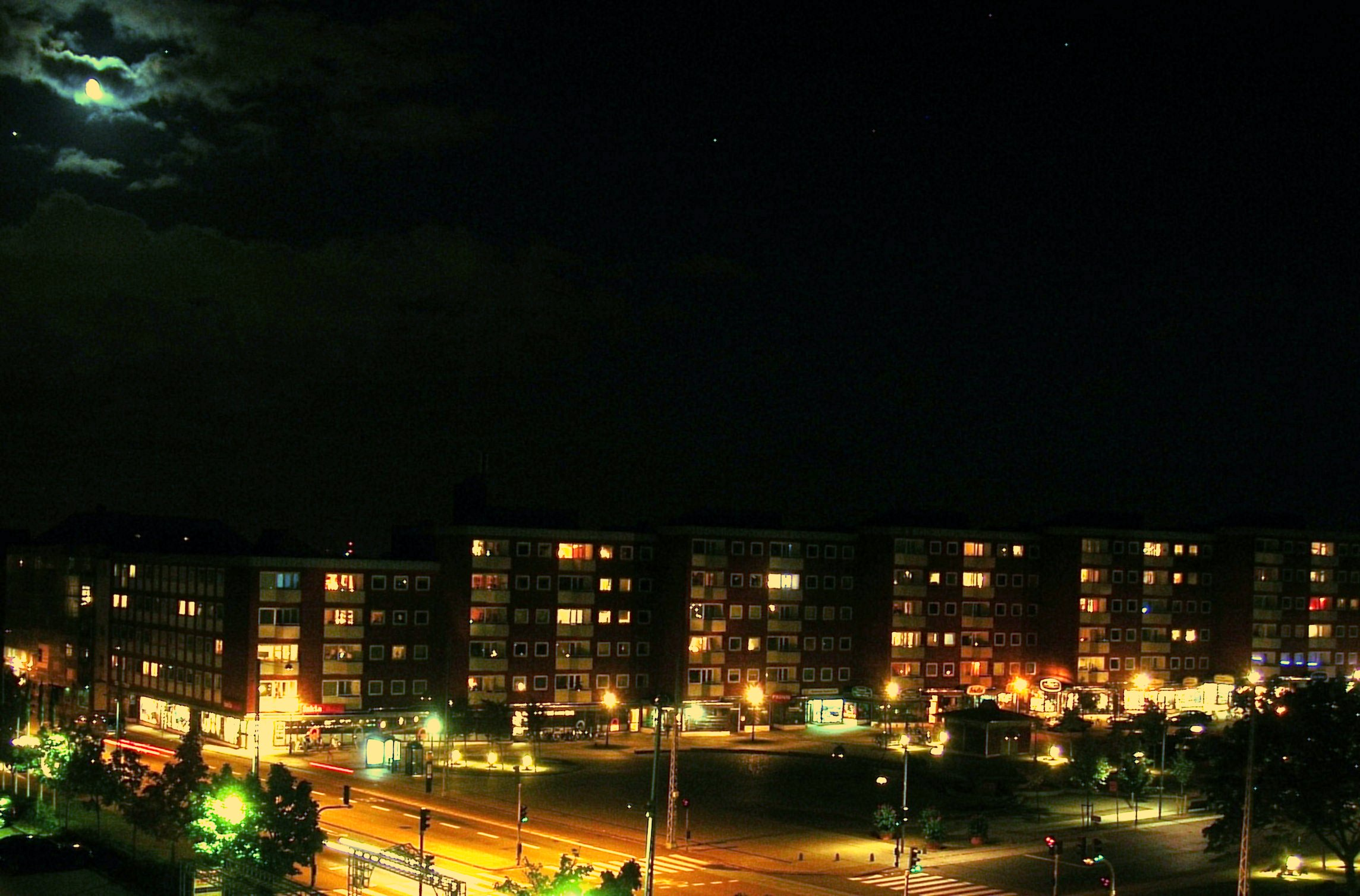 Søborg Torv by night